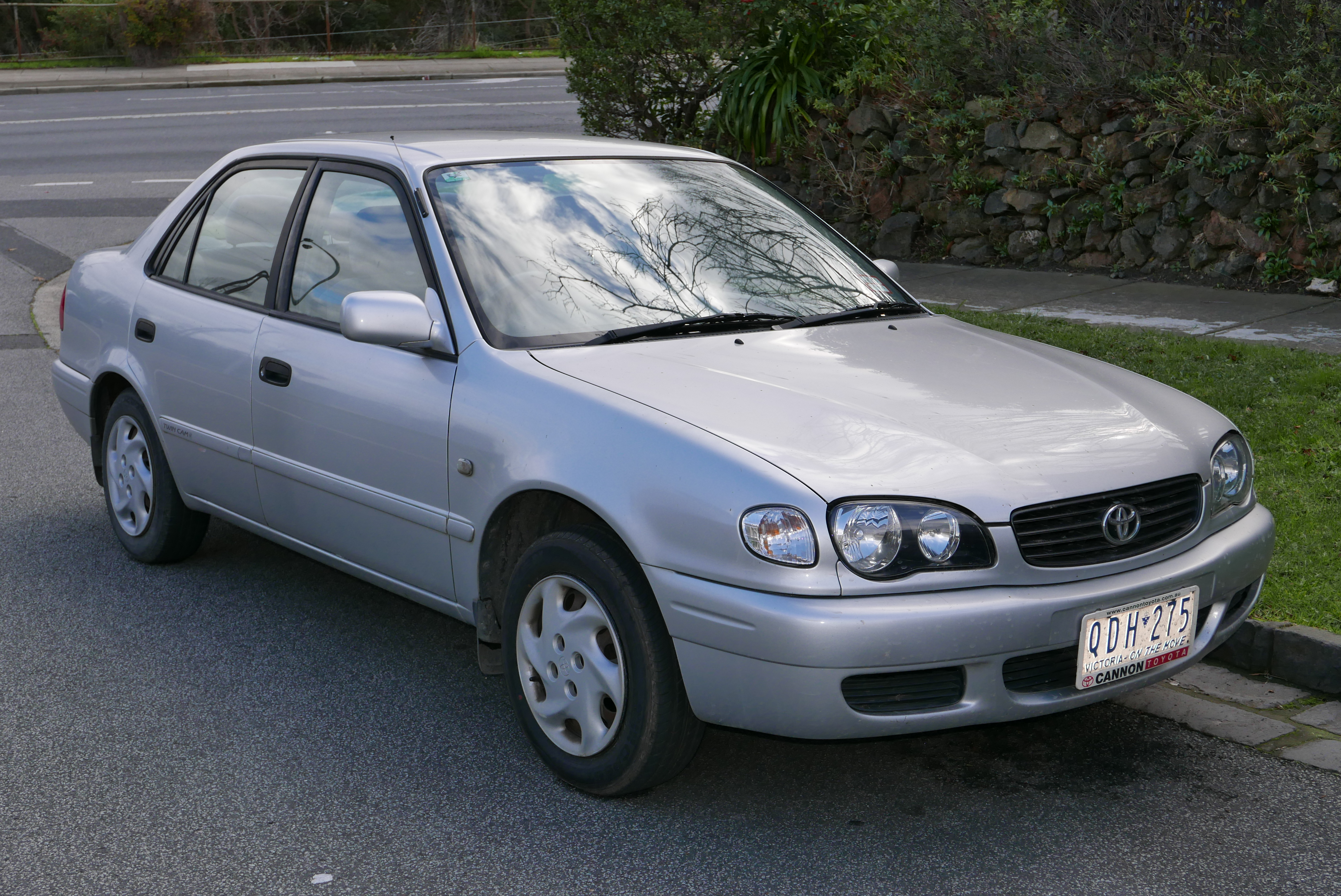 2000 Toyota Corolla (AE112R) Conquest sedan. Photographed in Ivanhoe, Victoria, Australia. Vehicle registration enquiry resultsJurisdictionVictoriaRegistrationQDH275Chassis codeJT753AEB200022012Engine code7AH713492Compliance date2000-02Year of manufacture2000